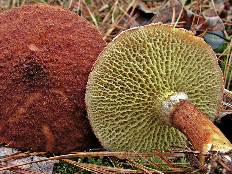 Suillus cavipes (Opatowski) Smith & Thiers